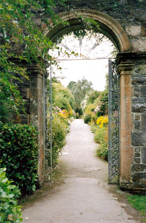 Entrance to walled garden, Illnacullin, County Cork, Ireland